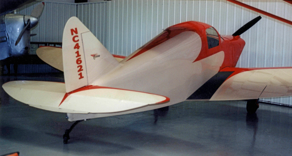 Culver Cadet built in 1941 displayed at the Historic Aircraft Restoration Museum at Creve Coeur airfield near St Louis Missouri in 2006.